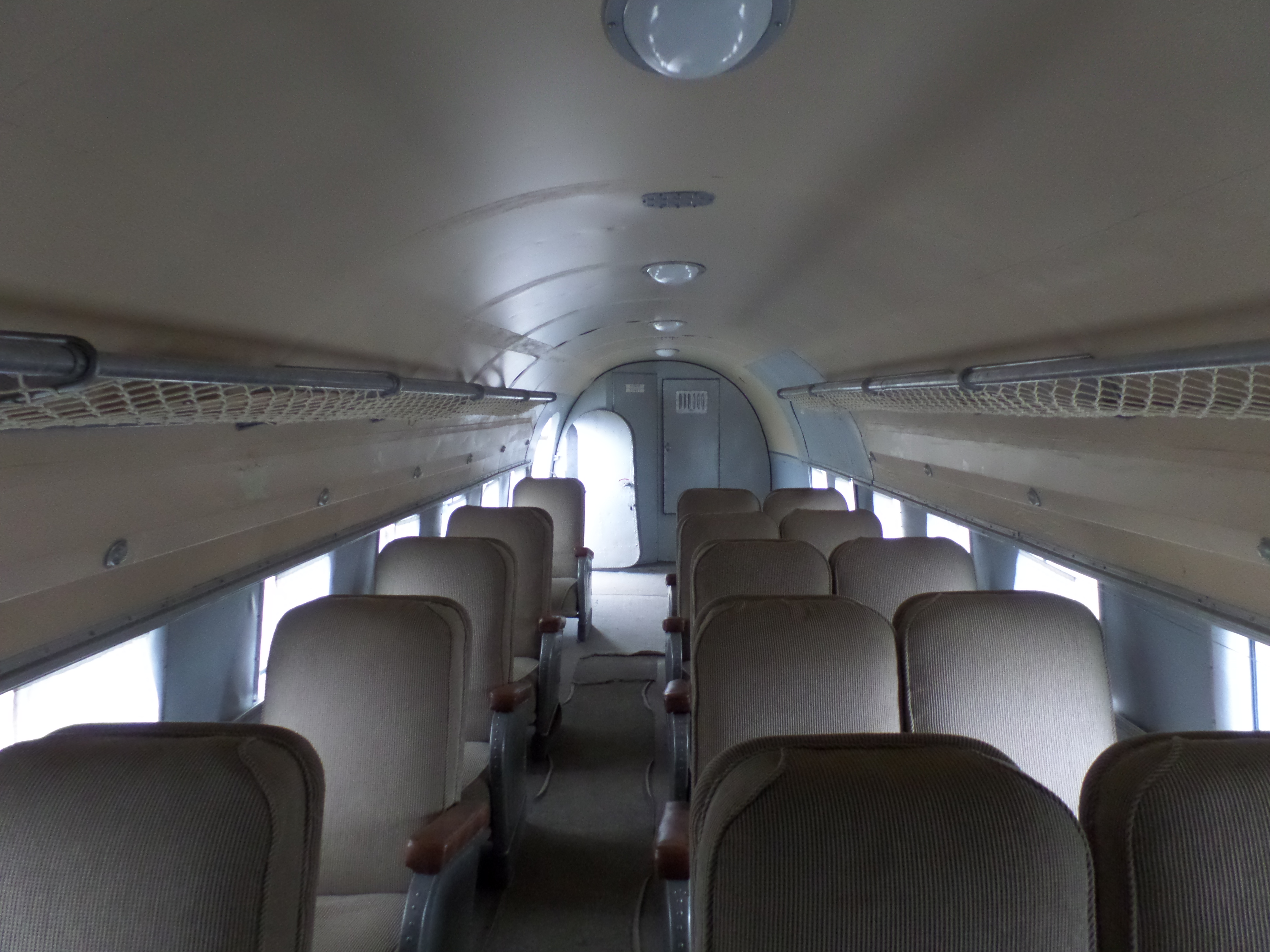 Cabin of Malév Lisunov Li-2 HA-LIQ at Aeropark Hungary on 20 October, 2016.